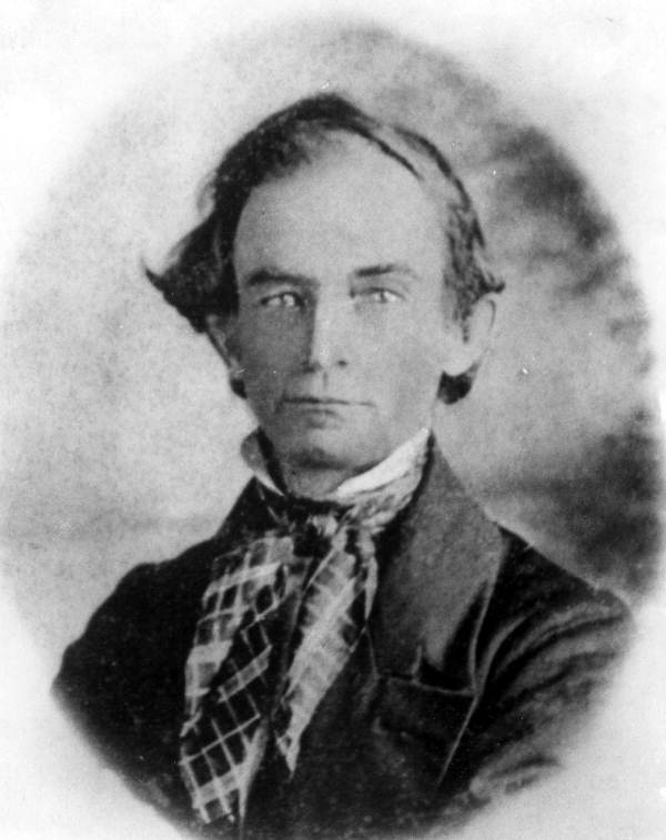 "He was born in 1801 on the Putnam Plantation near Savannah, Georgia. He attended Harvard and studied law privately at Saint Augustine and practiced there. In the Seminole War, 1835-42, he served as major, colonel and adjutant general. He served in both houses of the Florida legislature and as Speaker of the House in 1848. By appointment of President Zachary Taylor, he was Surveyor-General of Florida from May 1848 to 1854. He also was the President of the Florida Historical Society from 1853-56. Putnam County is named for him. He died on January 25, 1869."